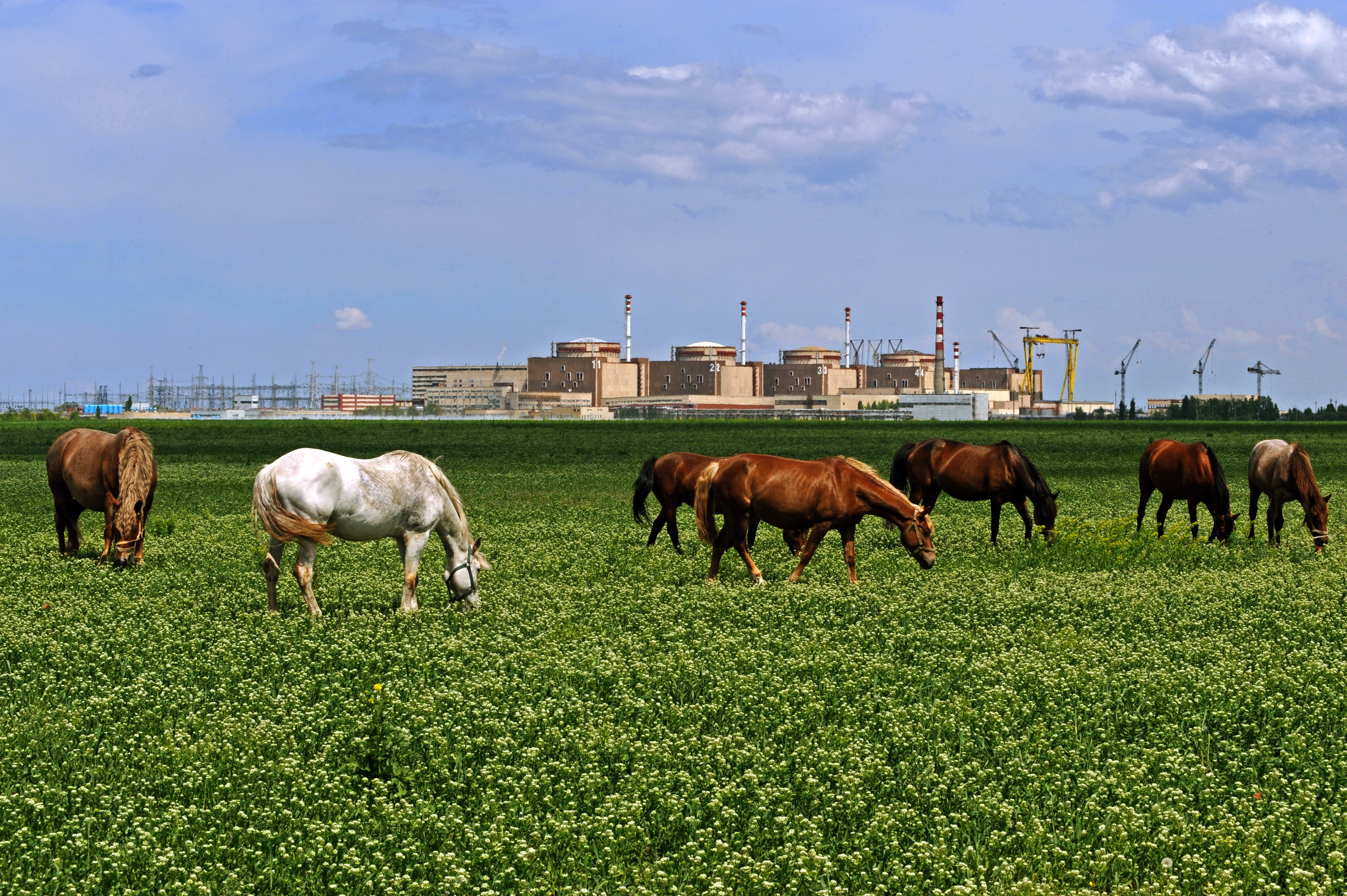 Balakovo Nuclear Power Plant with unit one to five, in the front of the image any Horses